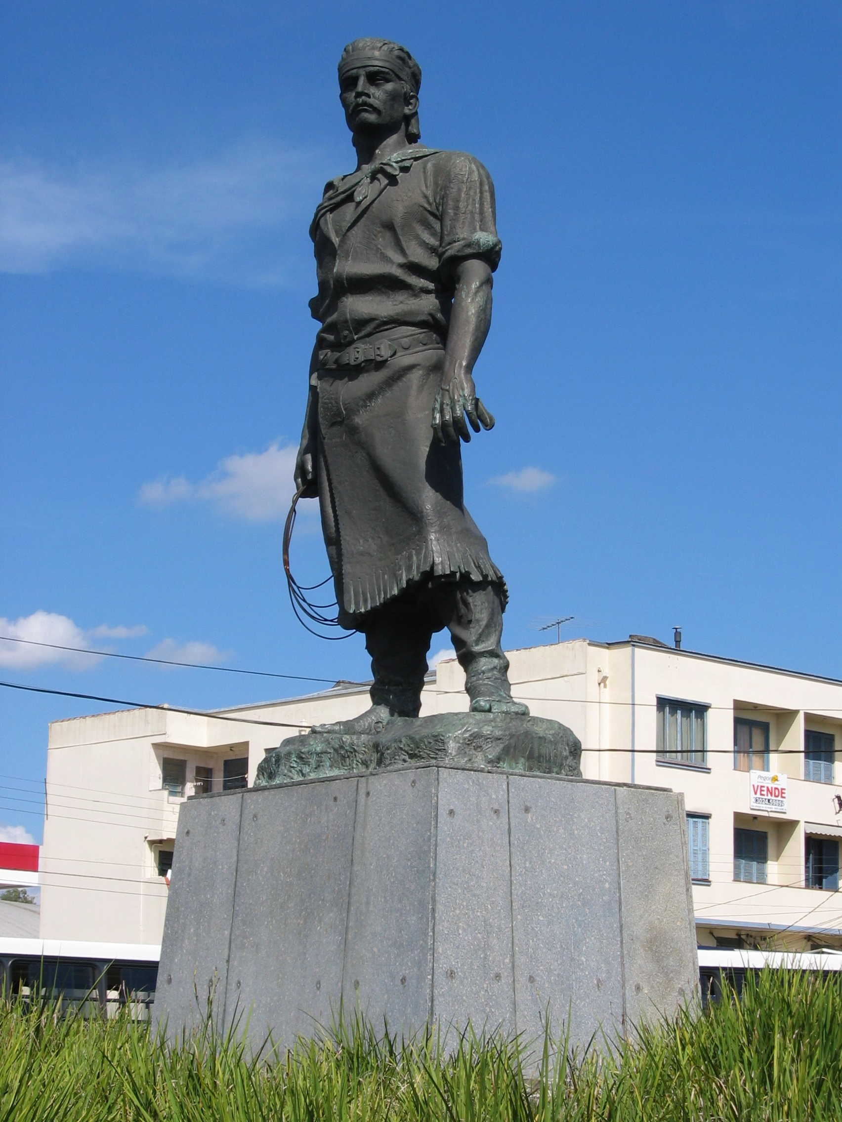 Statue of the Laçador in Porto Alegre representing a typical Gaúcho. This statue is the welcome symbol for the city.